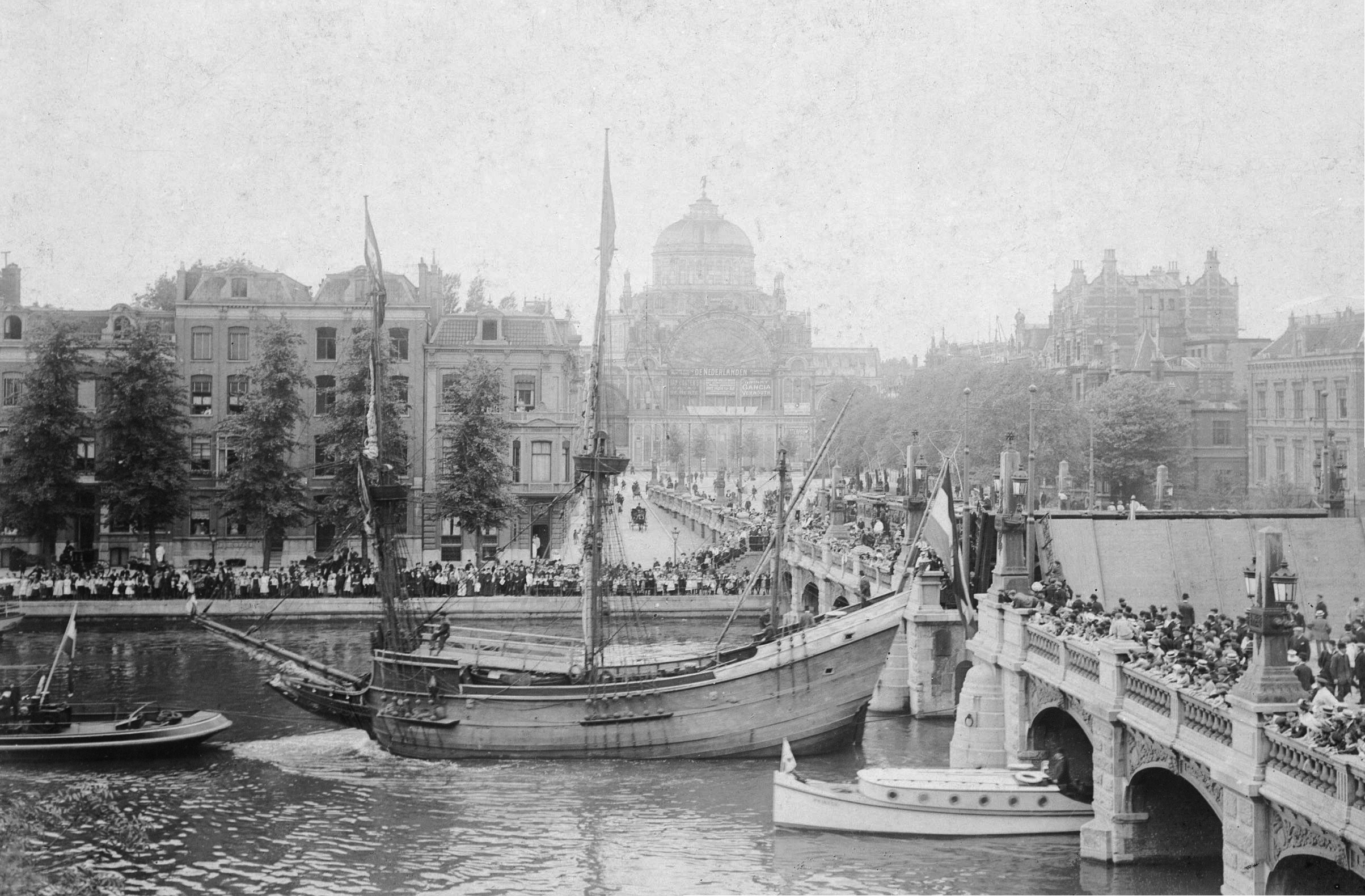 Halve Maen towed over the Amstel in Amsterdam, on it's way to the USA.